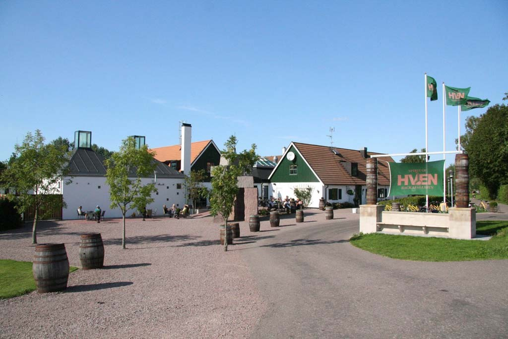 Destillery at Spirit of Hven